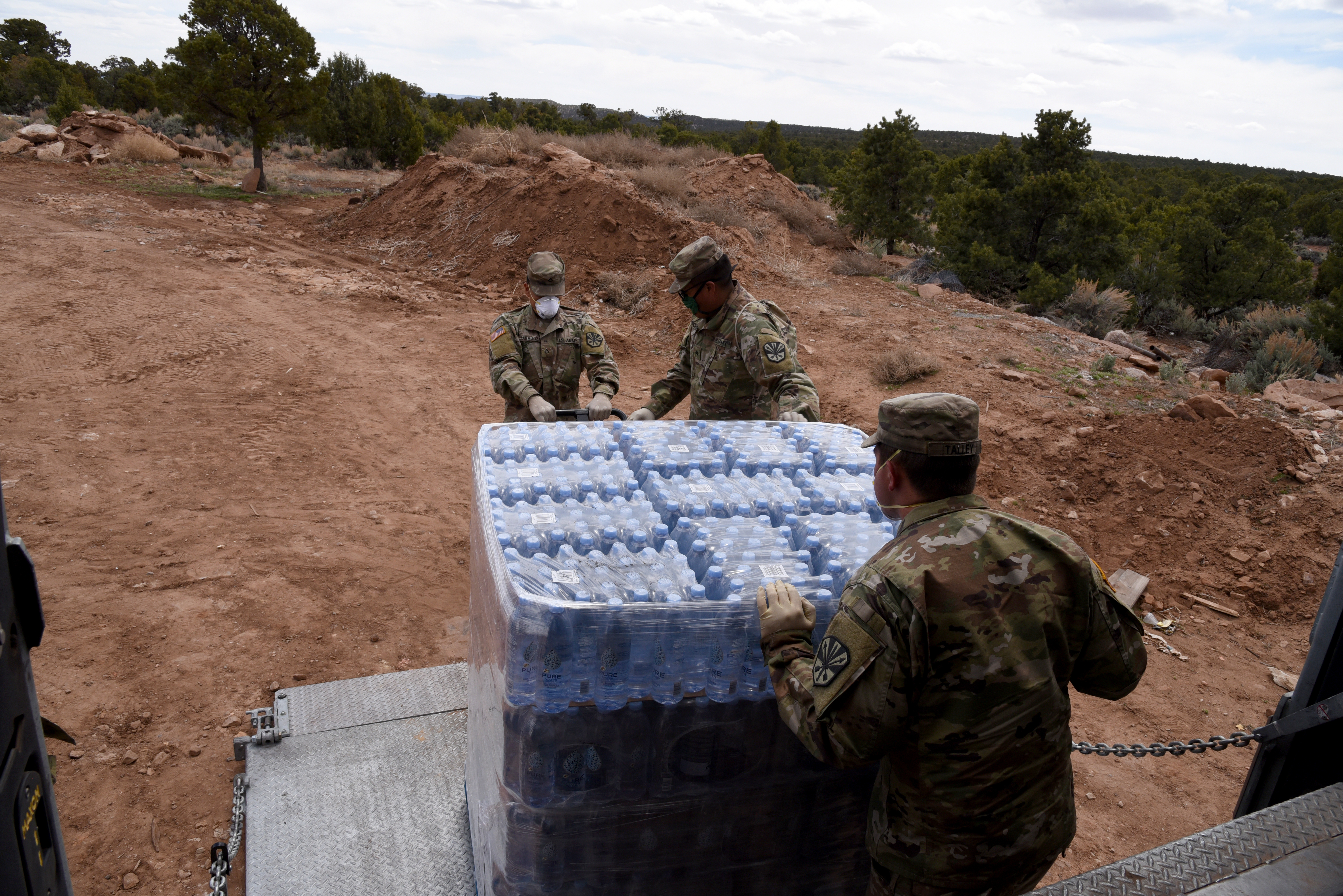 Arizona National Guard service members deliver food and supplies for Navajo Nation residents April 17, 2020, at a local food bank in Black Mesa, Ariz. The Arizona Guard has responded domestically in such emergencies as airport security after 9/11, Monument Fire in 2011, Hurricane Harvey in 2017, and the Havasupai Floods in 2018 (U.S. Air National Guard photo by Tech. Sgt. Michael Matkin).